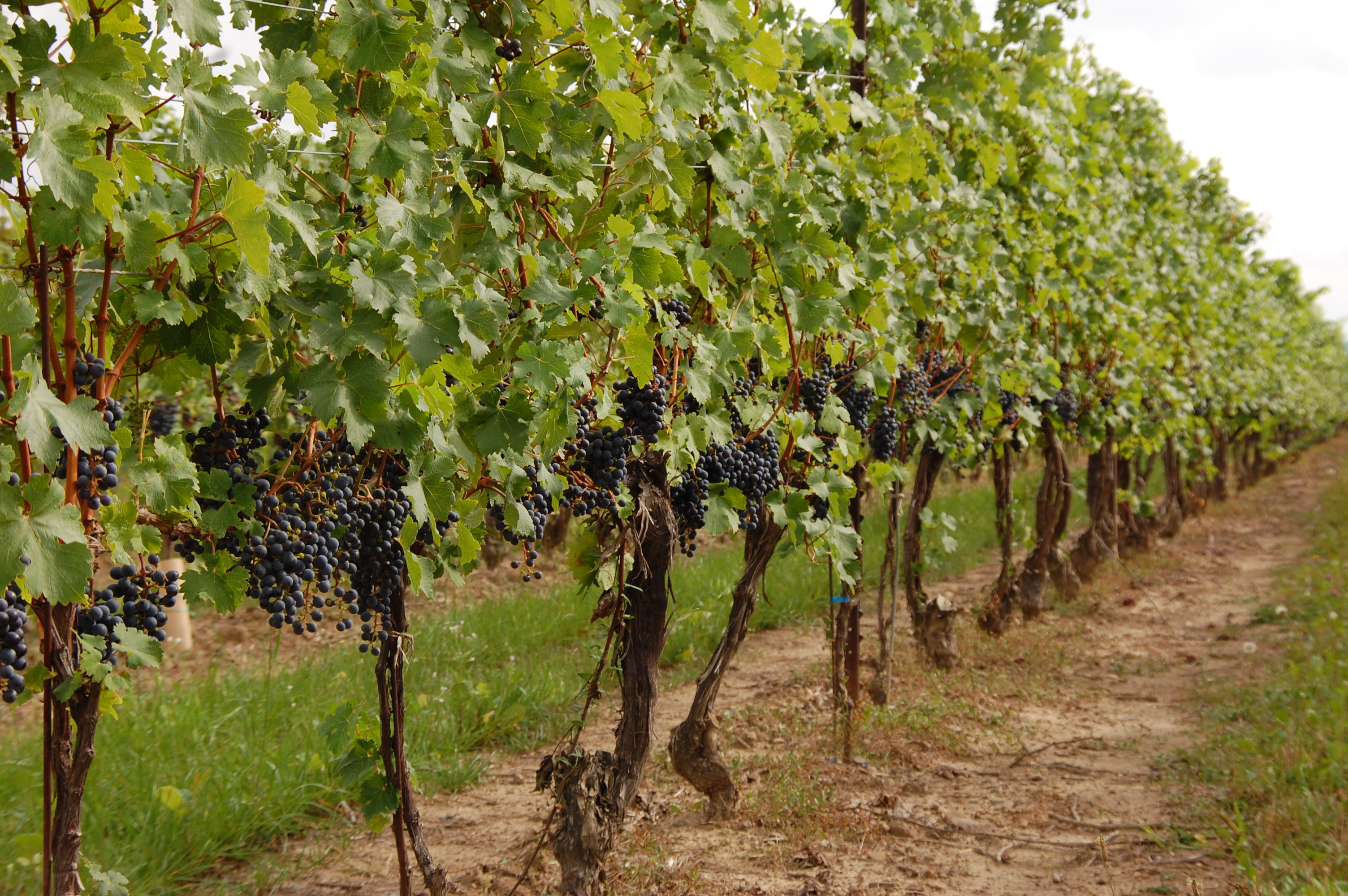 Black Real Deal